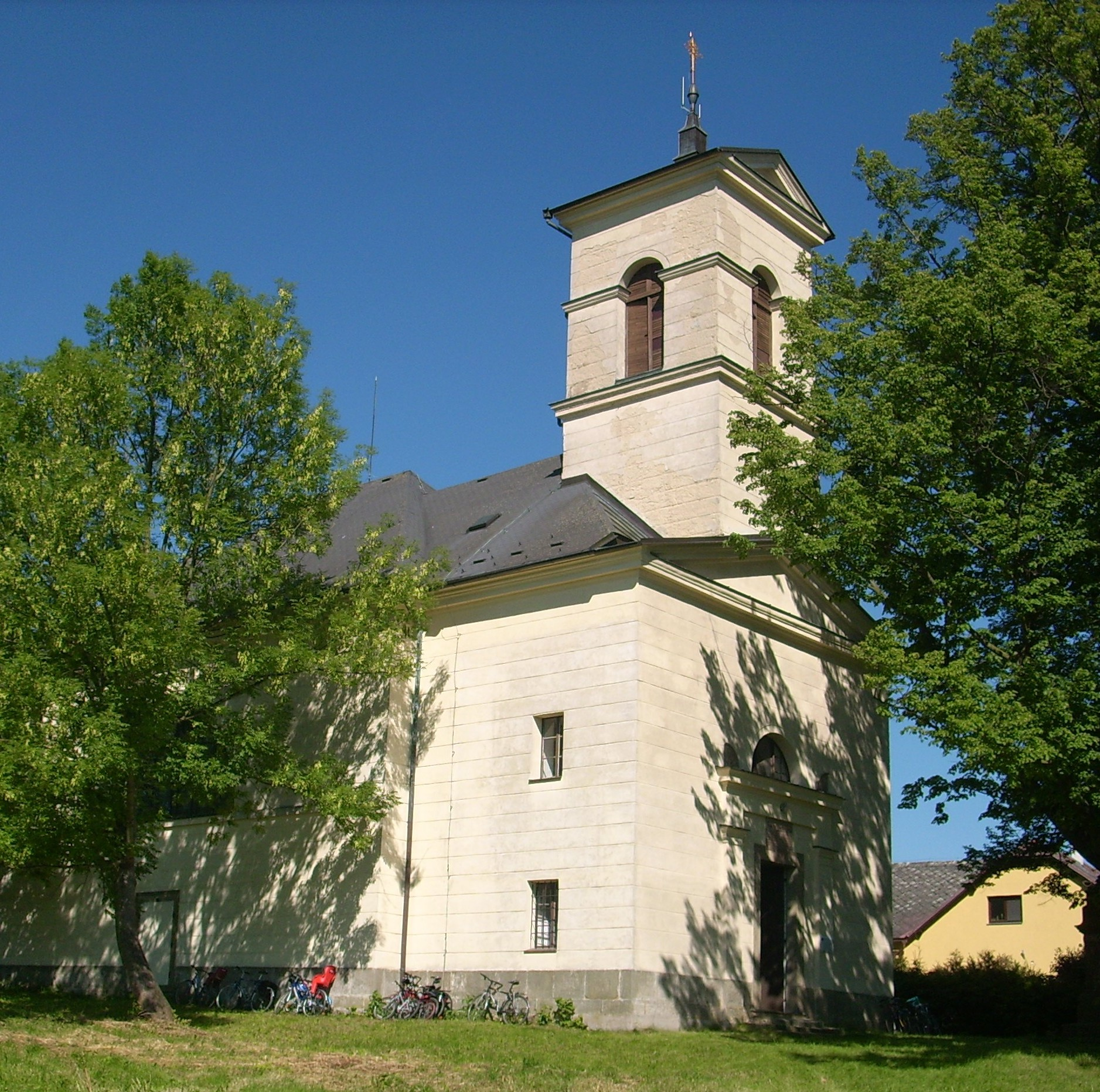 St. Peter and Paul Church, Knapovec, Czech Republic